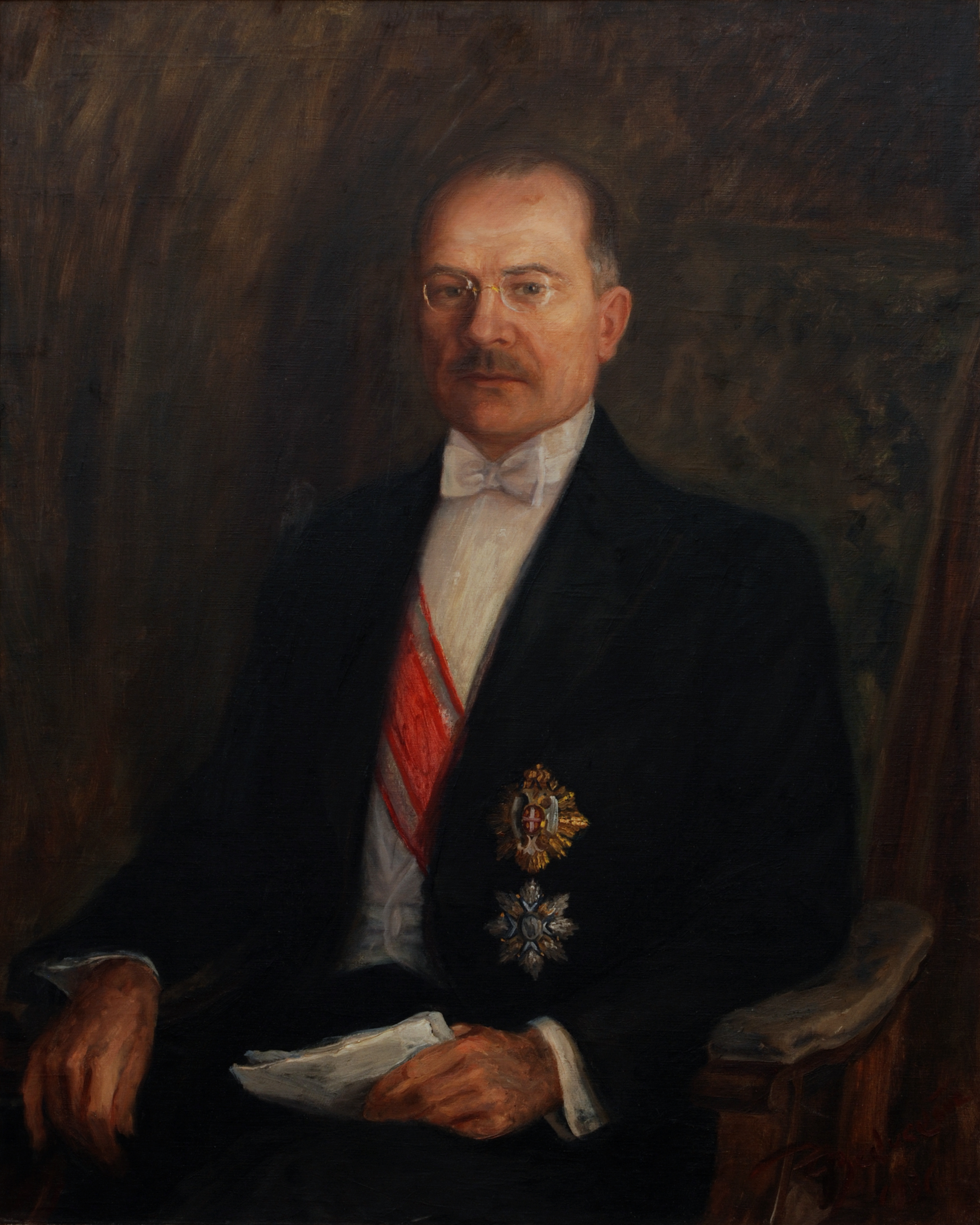 Portrait of Milan Hodža (1878-1944), Slovak politician and journalist by Zuzka Medveďová (1936). Inventory number 120. Srpski (latinica): Portret Milana Hodže (1878-1944), slovačkog političara i novinara autorke Zuske Medveđove (1936). Inventarski broj 120.